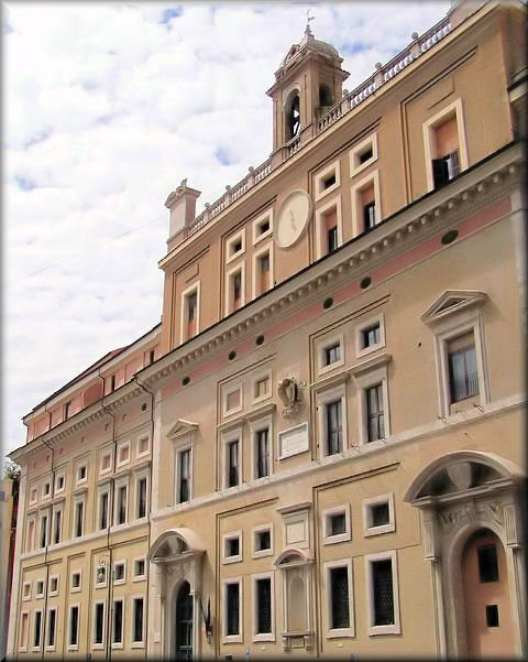 Wilson Delgado photograph of the Collegio Romano, taken in 2003.